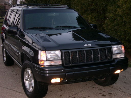 Picture of my jeep.